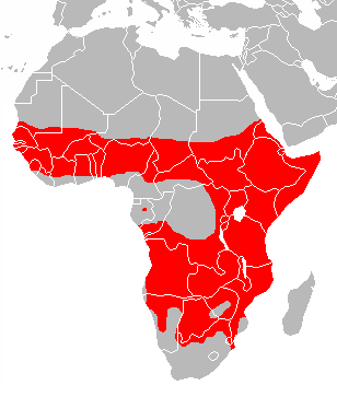 Range map of Spotted Hyena (Crocuta crocuta)